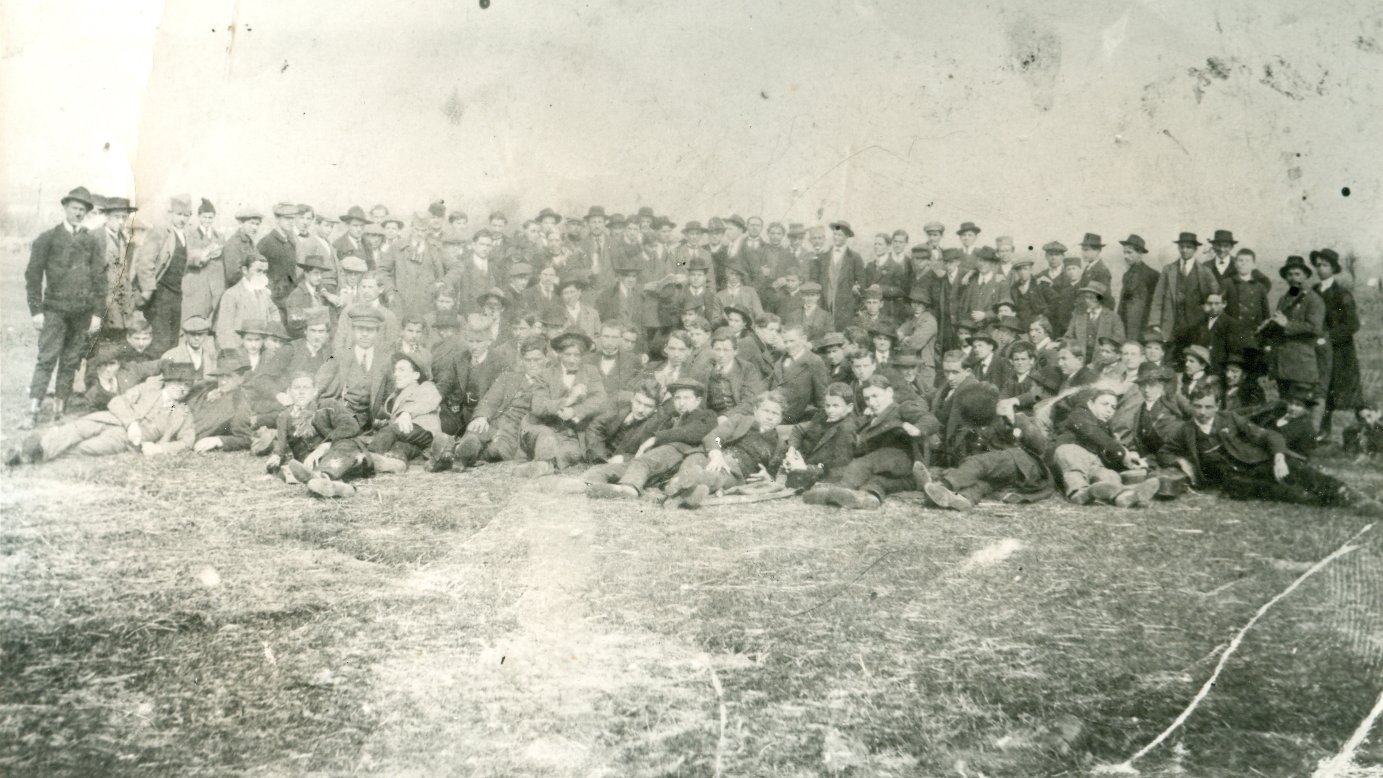 A strike by a student at the School for teachers in Negotin in 1914. Srpski (latinica): Štrajk učenika Učiteljske škole u Negotinu 1914. godine